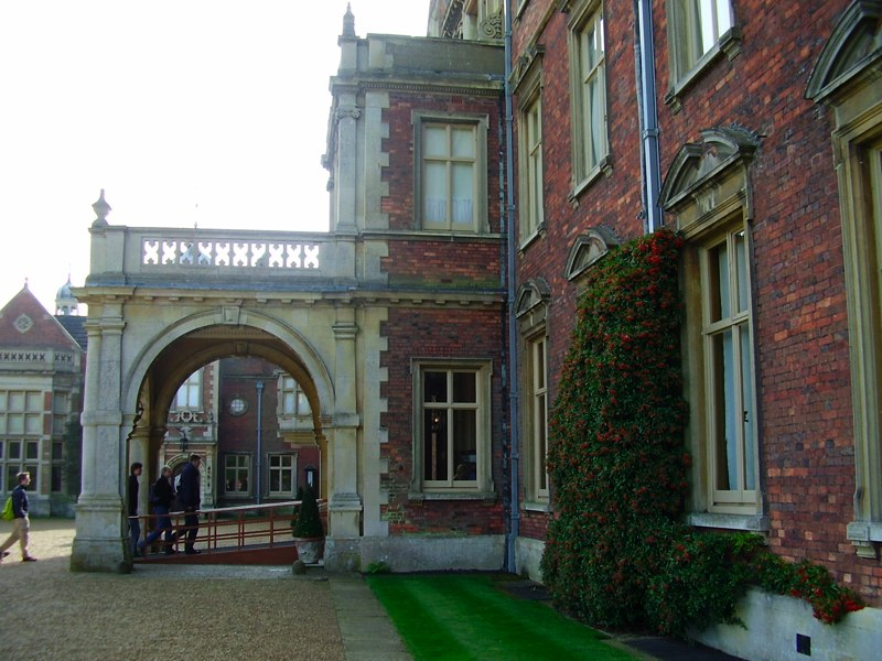 Sandringham House